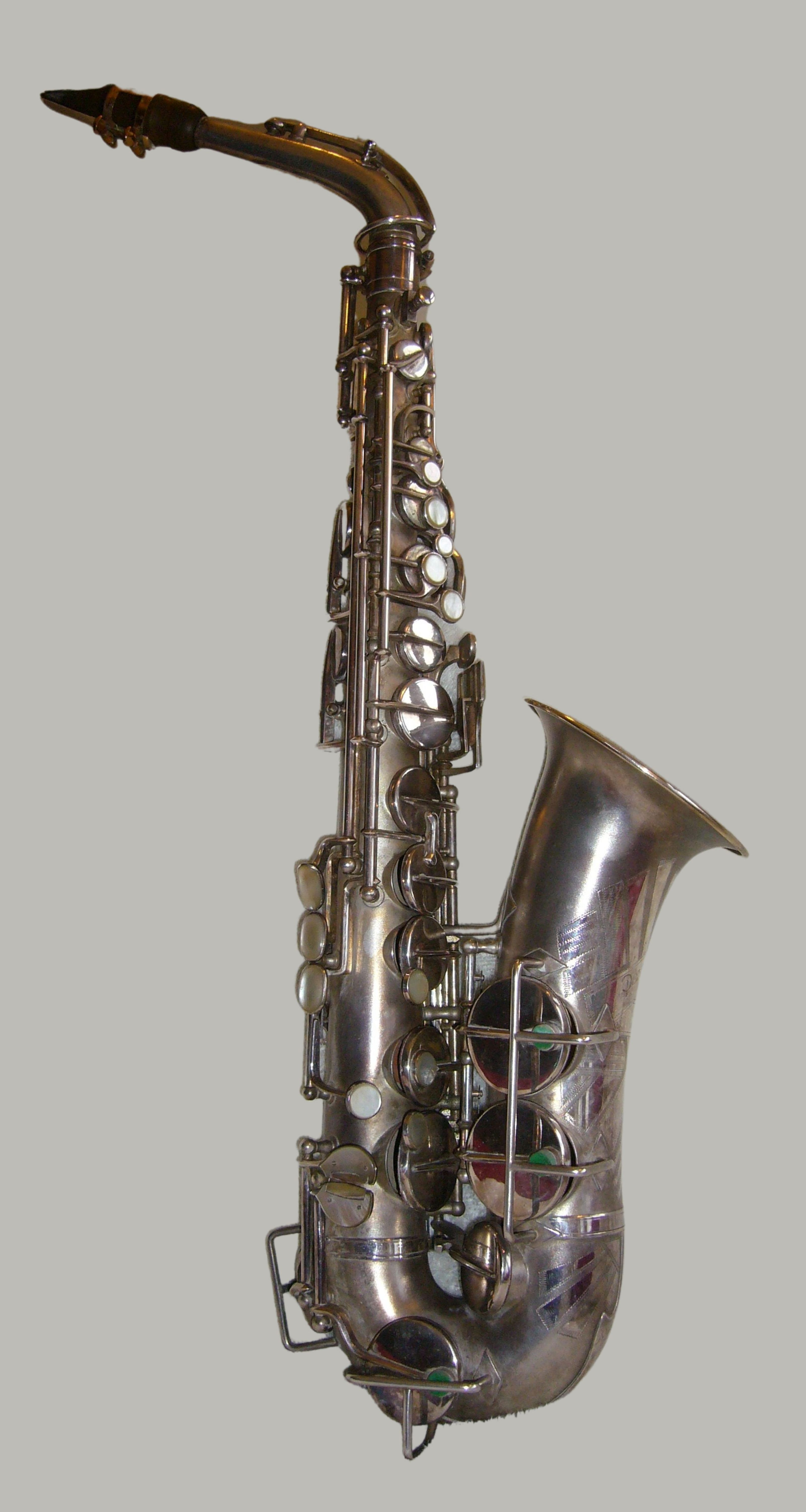 Silver-plated 'Selmer Pennsylvania Special' alto Saxophone, a "stencil" sax made by Julius Keilwerth in Czechoslovakia, circa 1930s. It has rolled tone-holes, like a pre-1947 Conn saxophone.